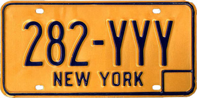 1974 New York Number Plate